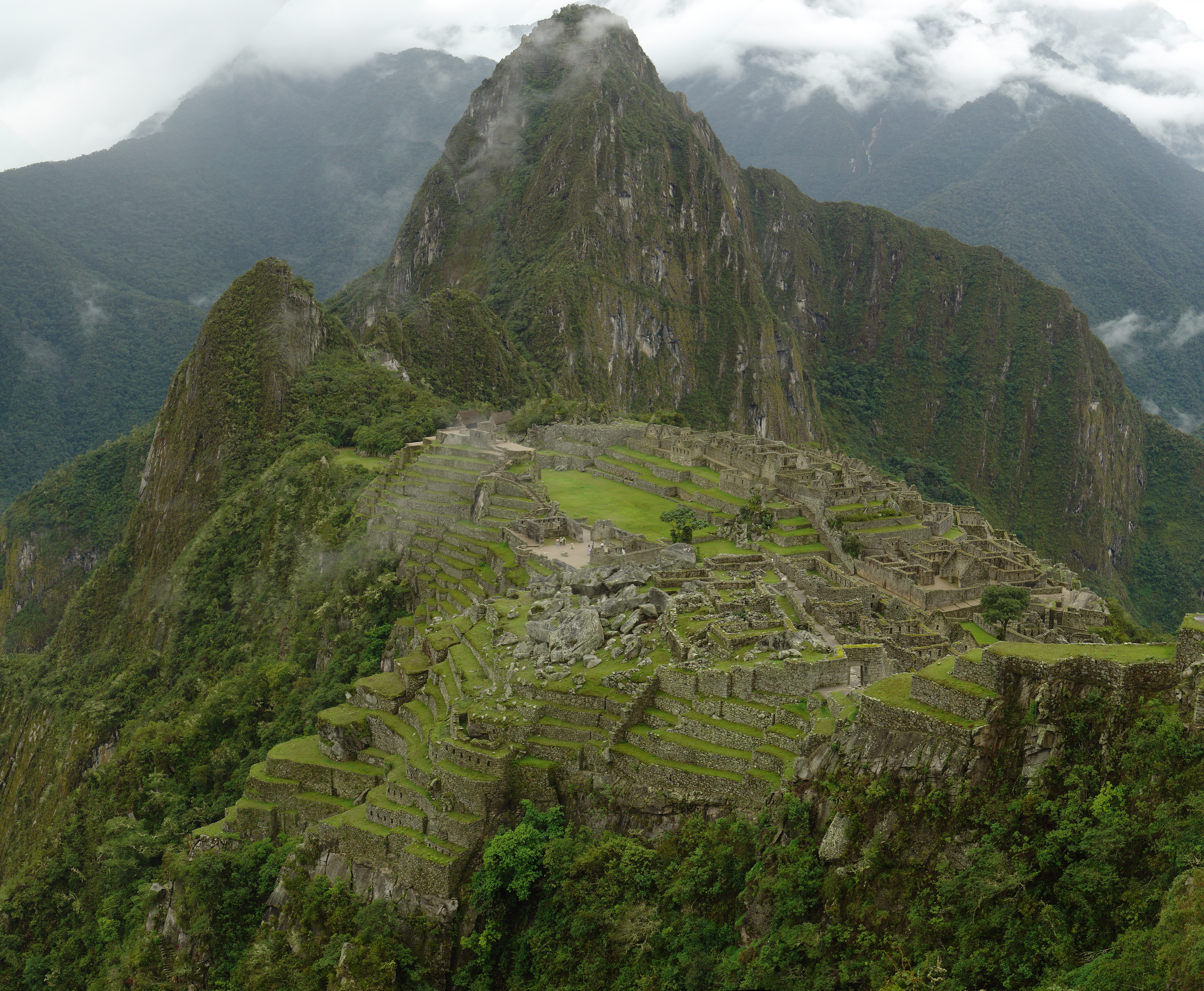 Machu Picchu at dawn. Mosaic of 42 pictures of 5 mpx each created with the Hugin computer program